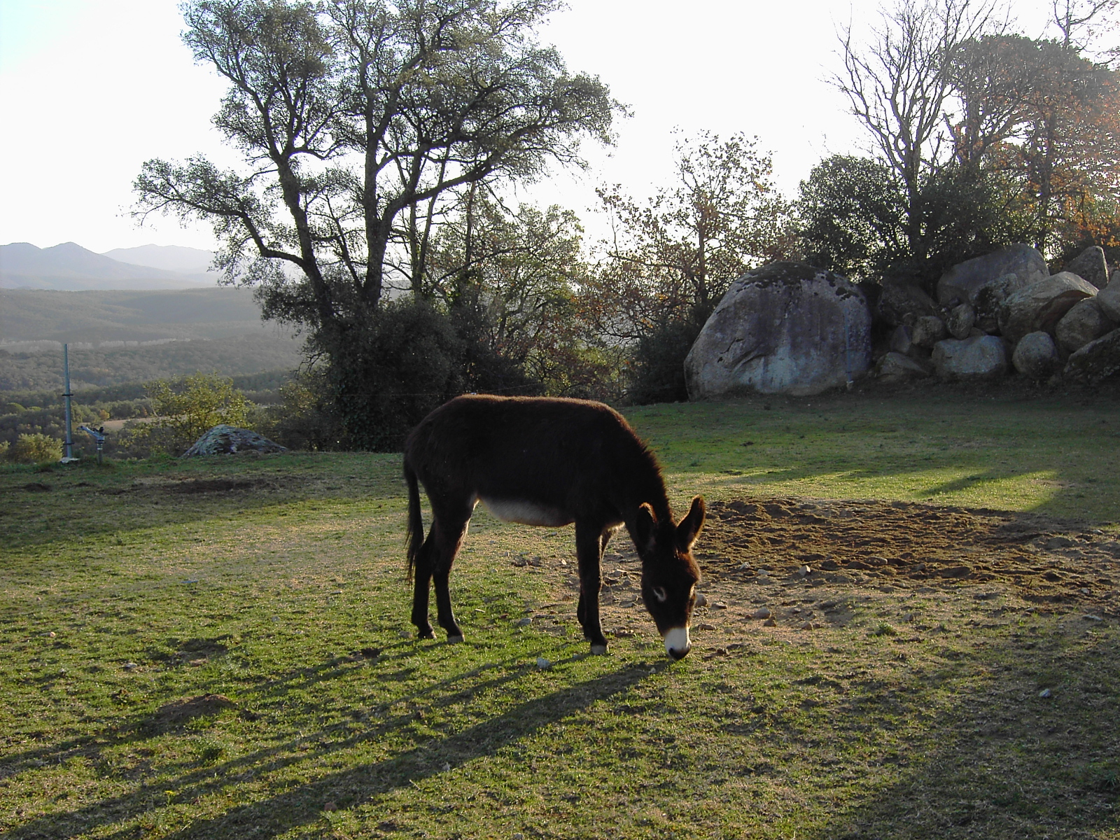 Young female catalan donkey photographed in Agullana (Alt Empordà, Girona, Spain).